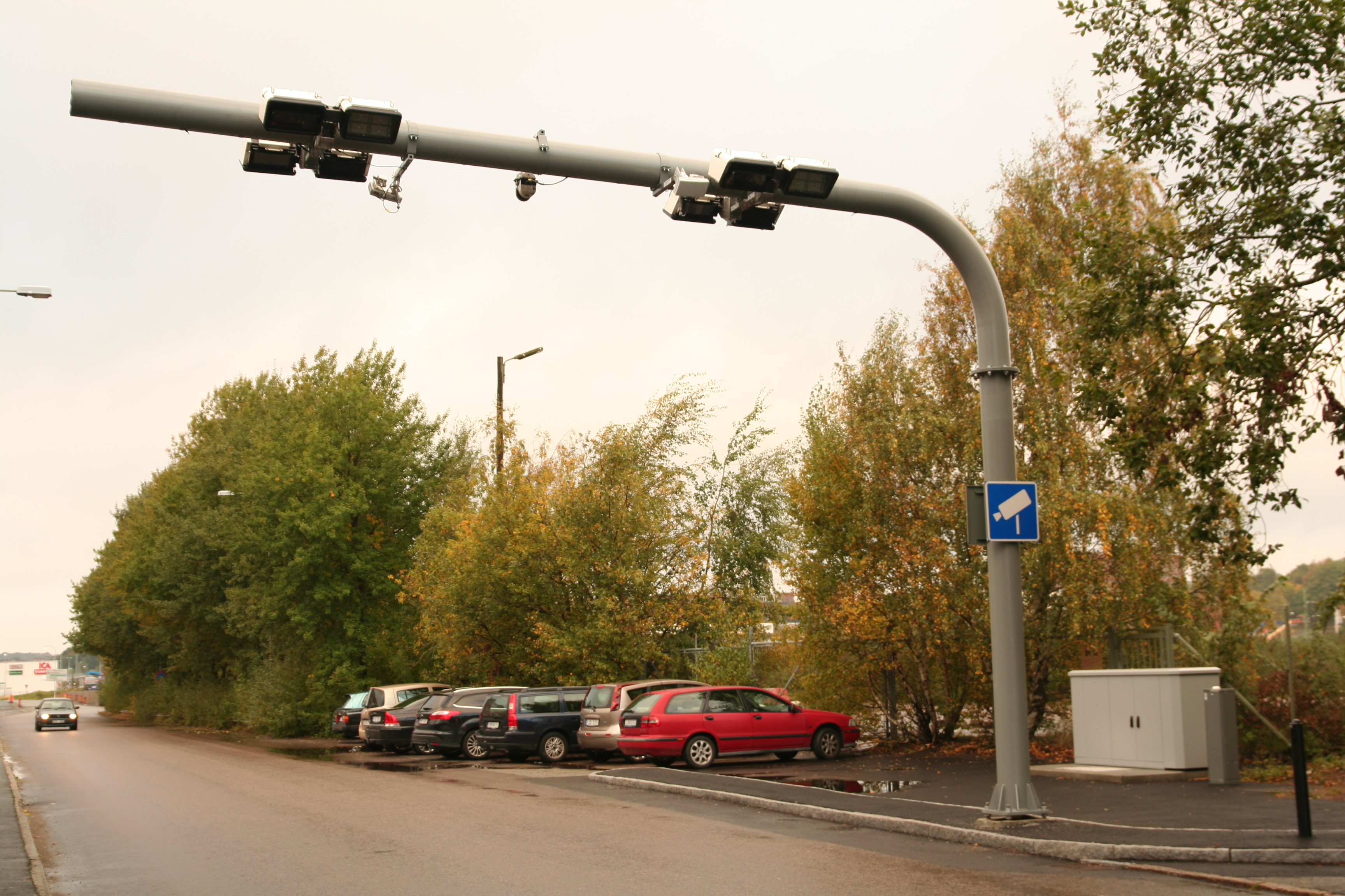 The automatic toll station at Polstjärnegatan in Göteborg, Sweden. The station is part of the congestion tax system in Göteborg, planned to go into action on 1 January 2013.